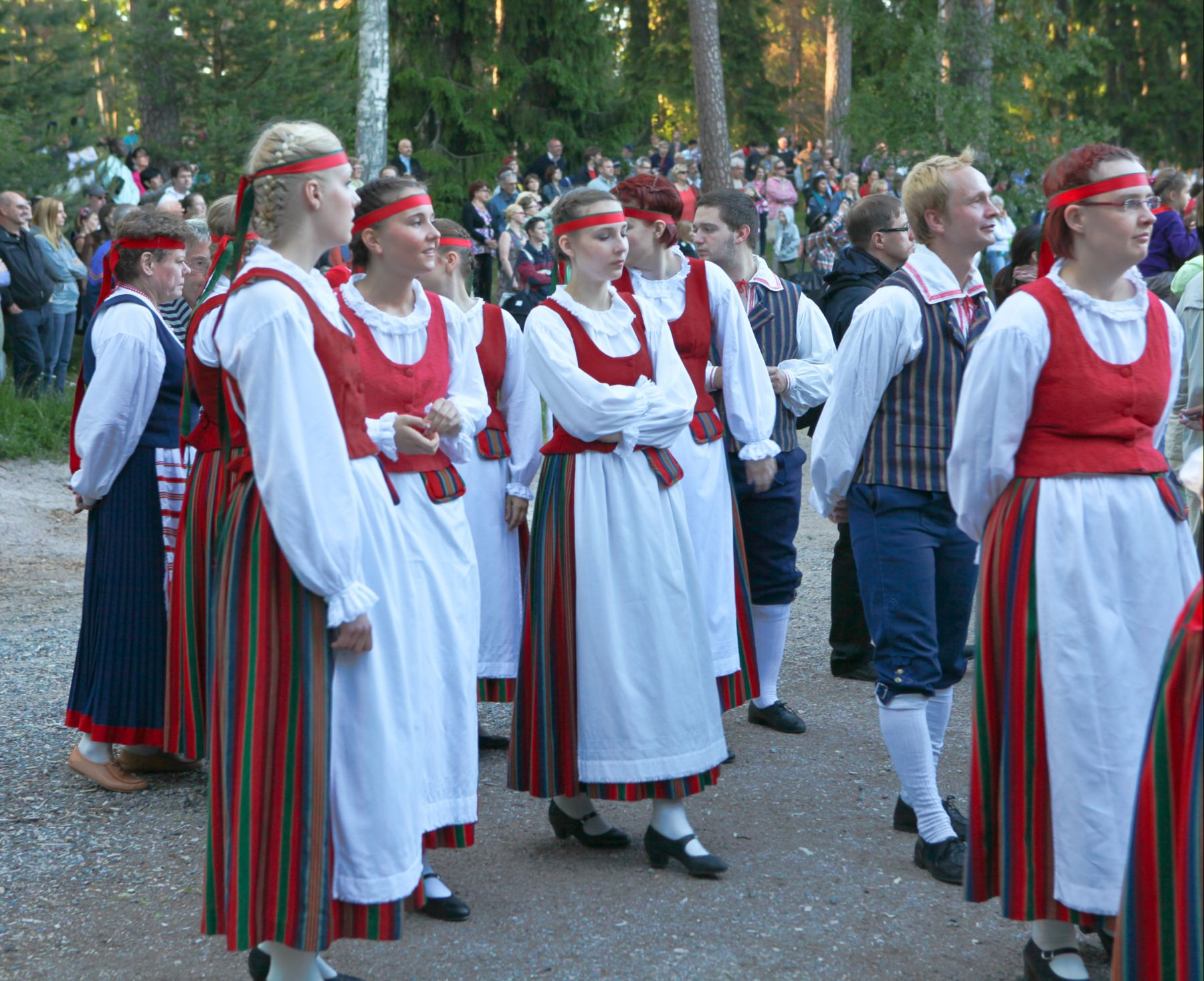 Seurasaari Midsummer Bonfires, Helsinki, Finland. Folk dancers wearing national costumes